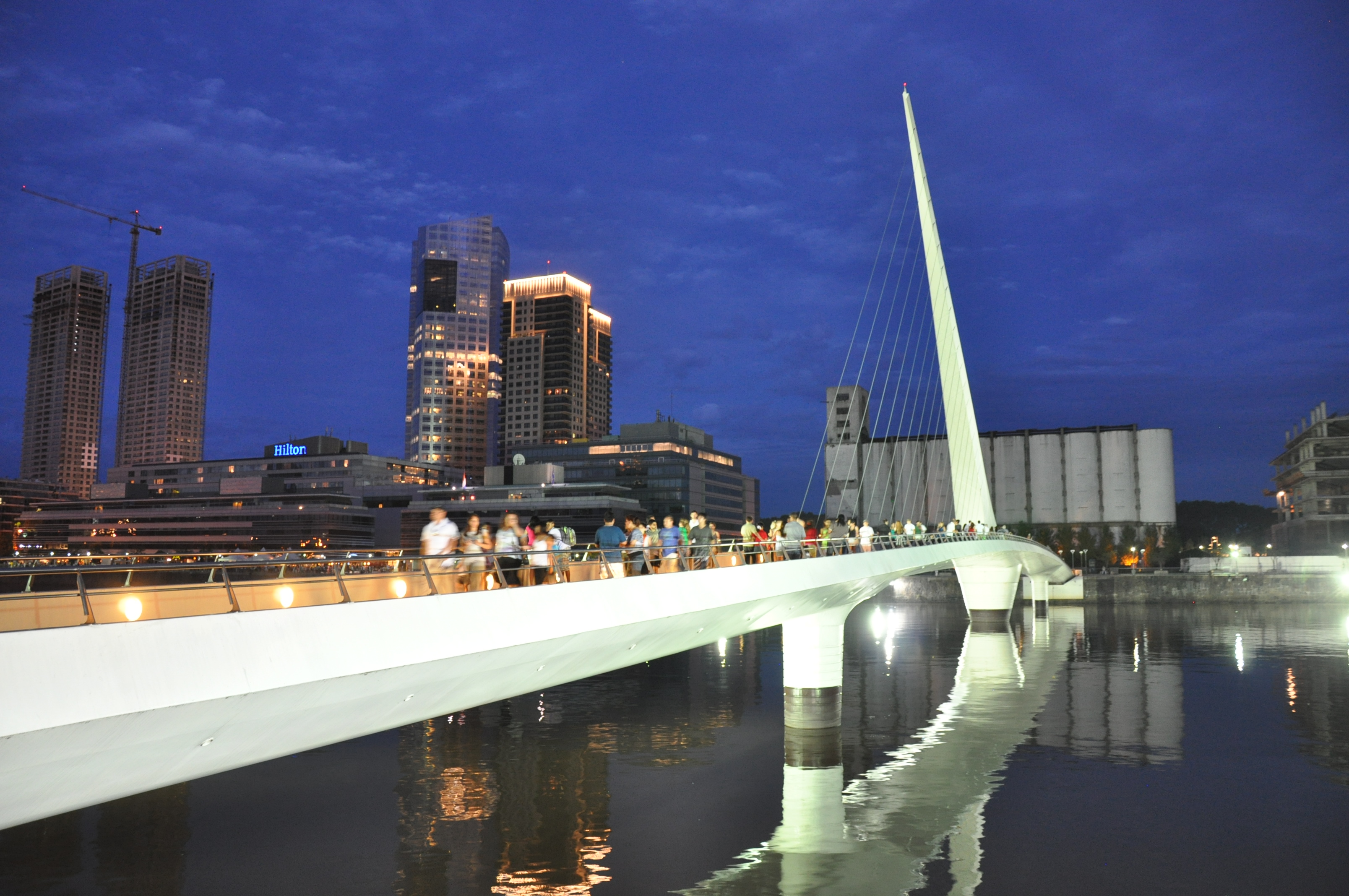 The Puente de la Mujer (Spanish for "Woman's Bridge") is a footbridge in the Puerto Madero district of Buenos Aires, Argentina